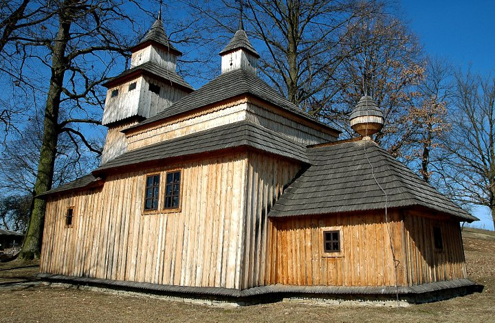 wooden church in village Kozany